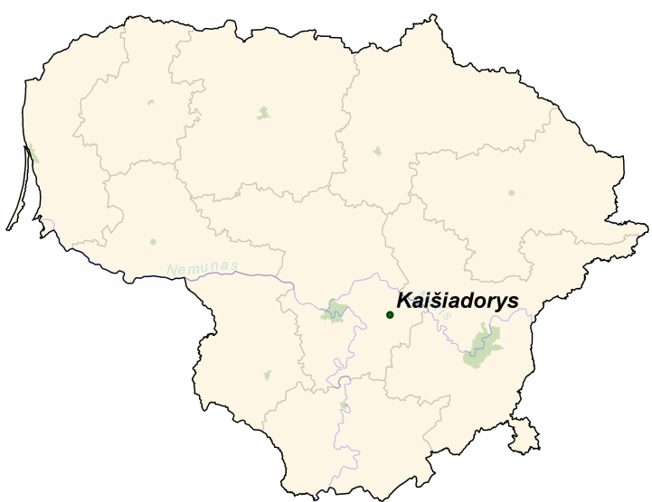 Kaišiadorys on the map of Lithuania